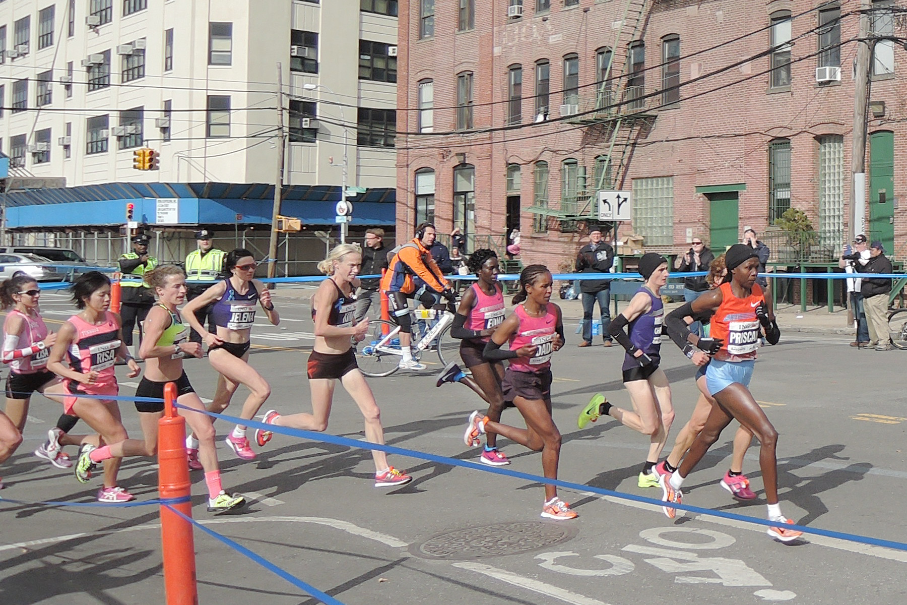 Looking northwest as lead women round the curve from 10th Street to 44th Road approaching mile 14.